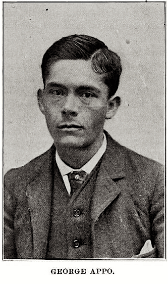 George Appo (1858-1930), New York criminal and son of the "Chinese Devilman" Quimbo Appo